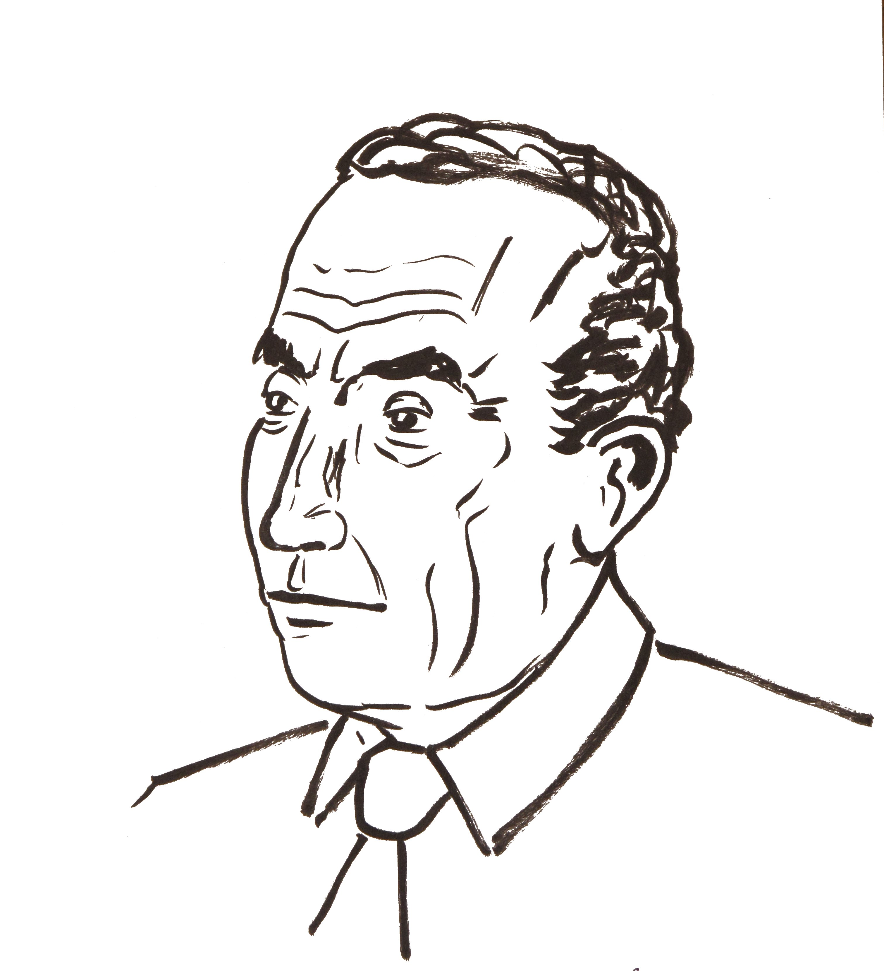 Nigel Hawthorne